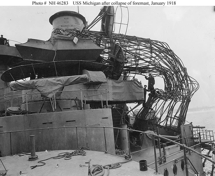 Photo #: NH 46283 View looking aft from atop Turret # 2, showing her collapsed "cage" foremast, which had buckled in an Atlantic storm on 15 January 1918. Photographed at the Philadelphia Navy Yard, Pennsylvania, 28 January 1918.